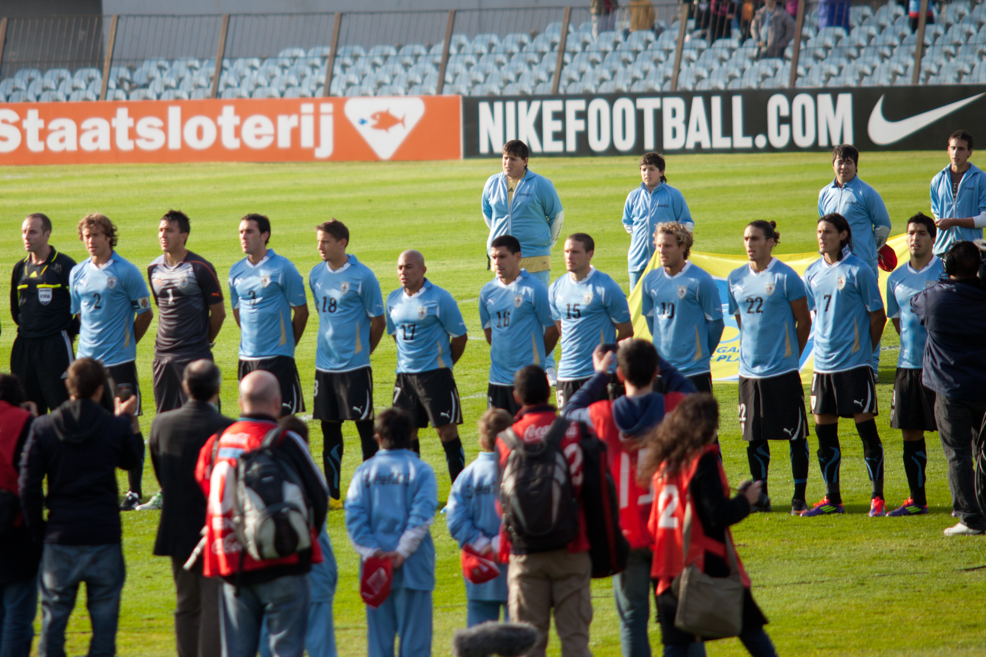 Uruguay players during the nationa anthem.